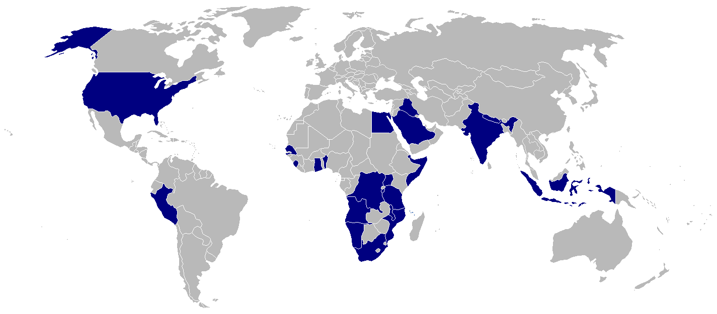 Operators of the Mechem Casspir.